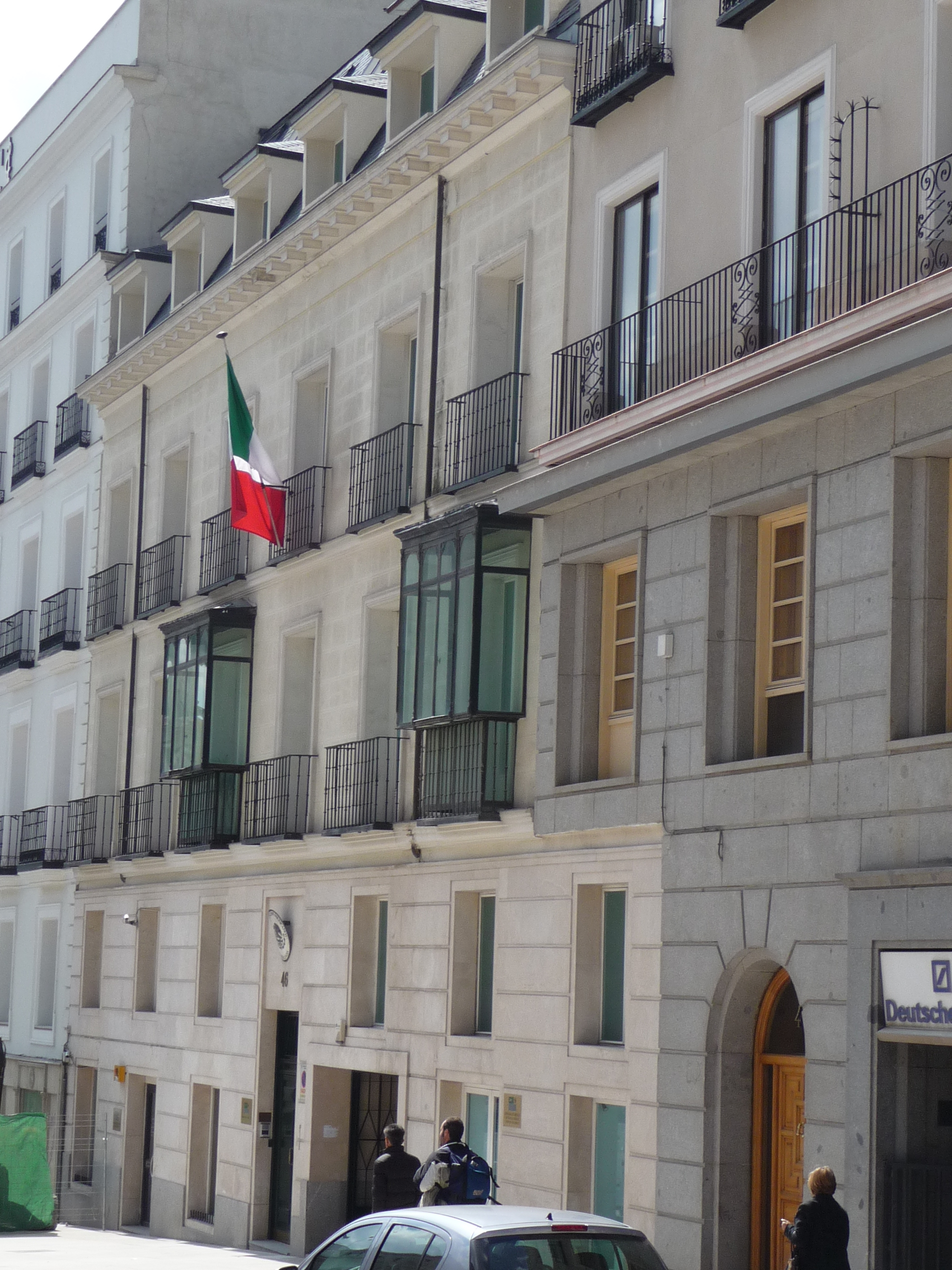 Embassy of Mexico in Madrid